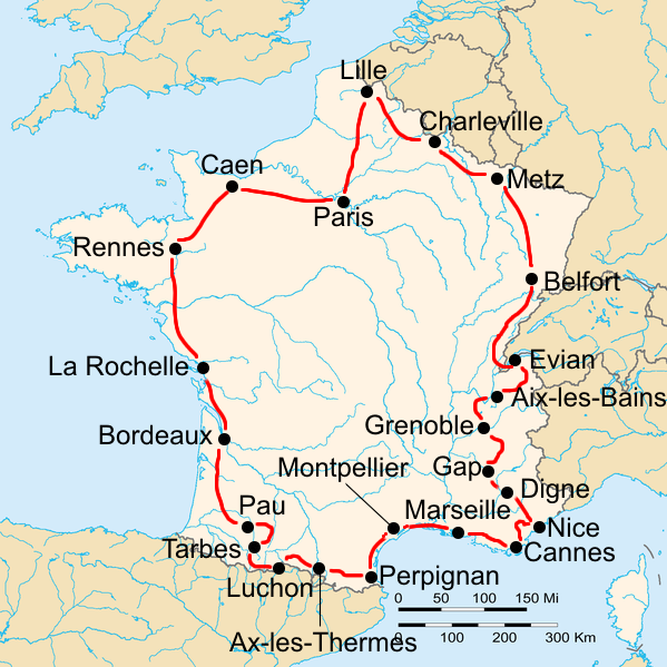 Route of the 1933 Tour de France, starting and finishing in Paris.